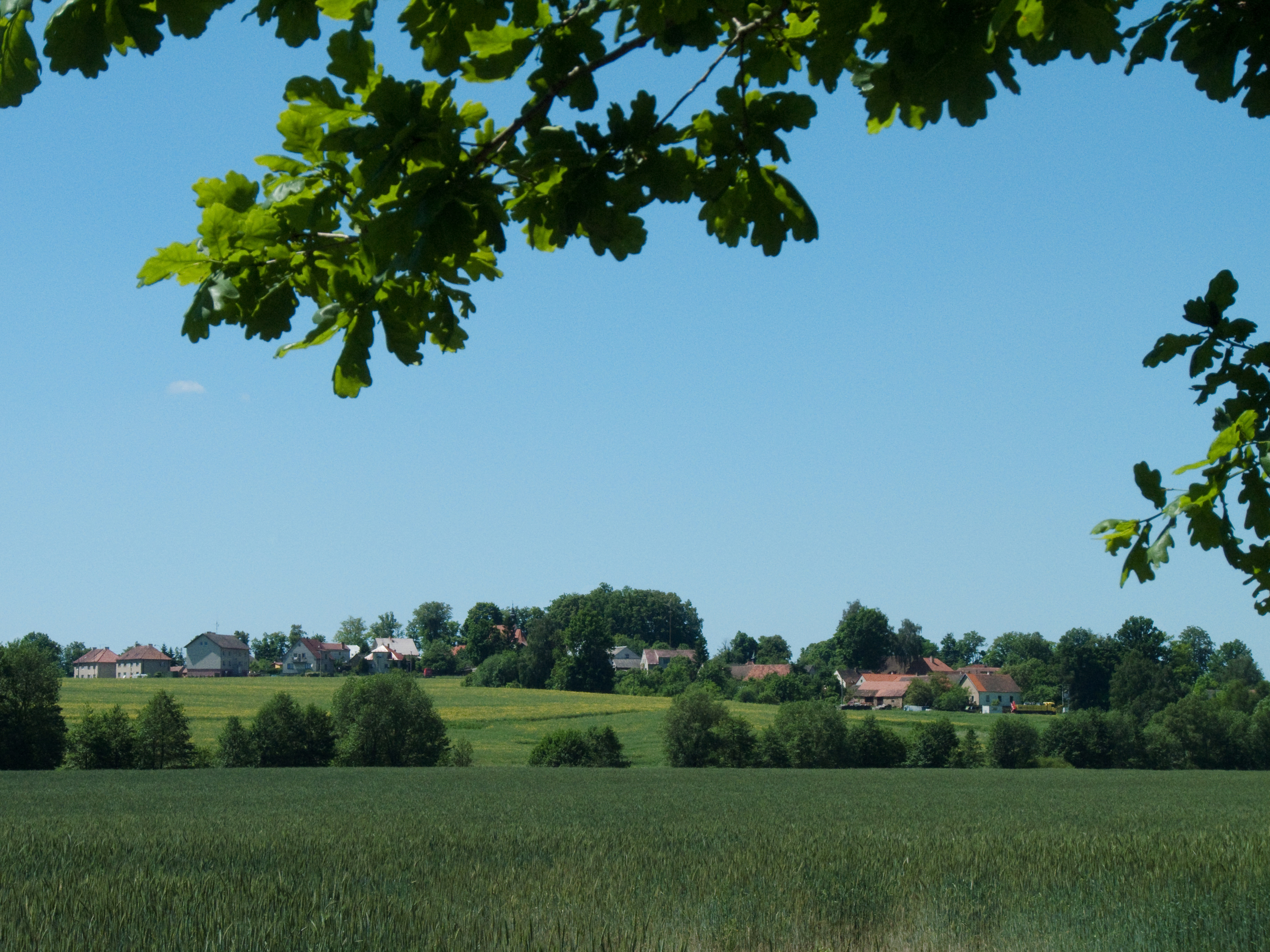 View of the village of Přehořov as seen from the road leading to Hrušova Lhota, Tábor district, Czech Republic